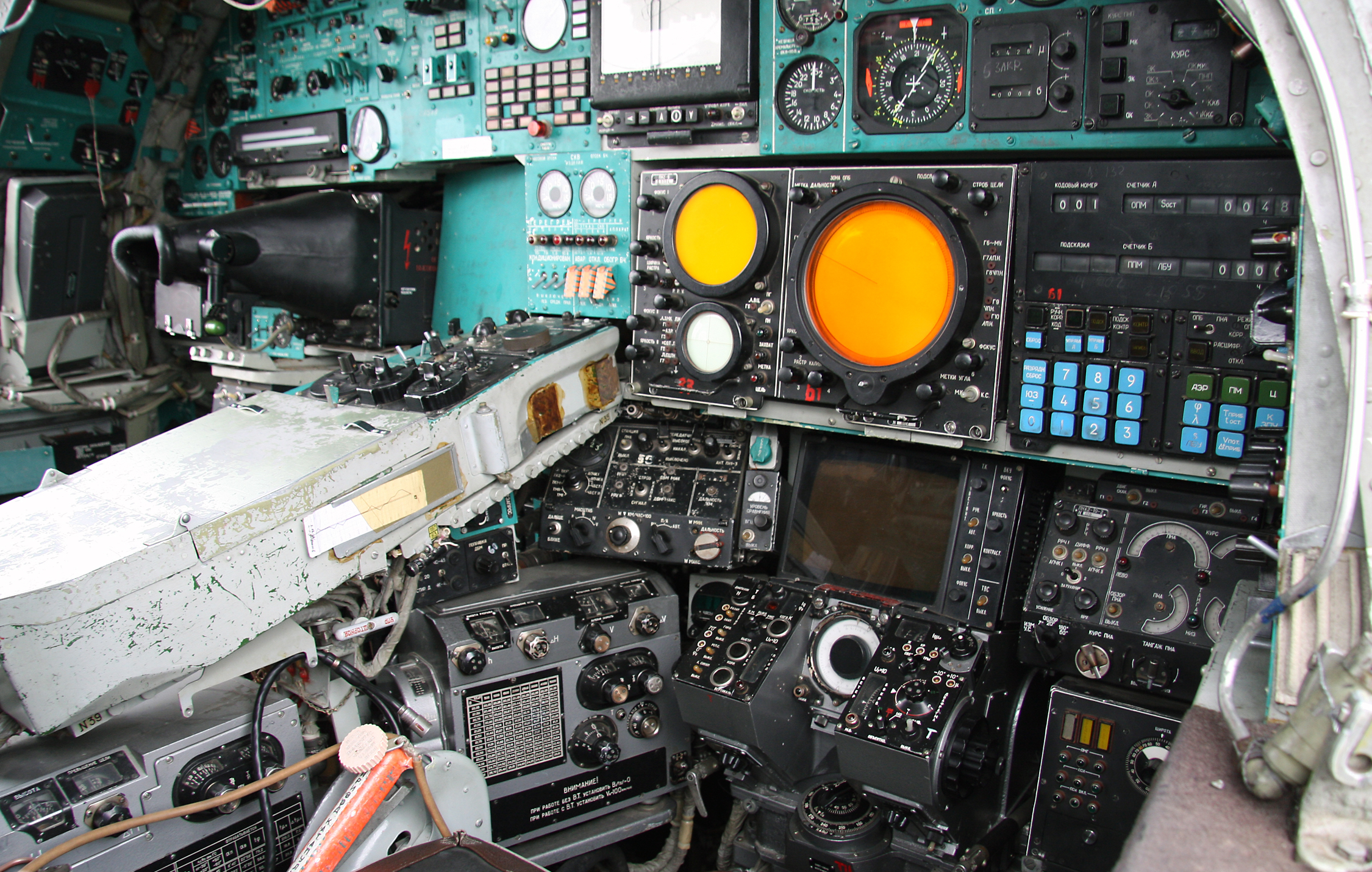 Cockpit of Tupolev Tu-22M3 bomber, navigator panel